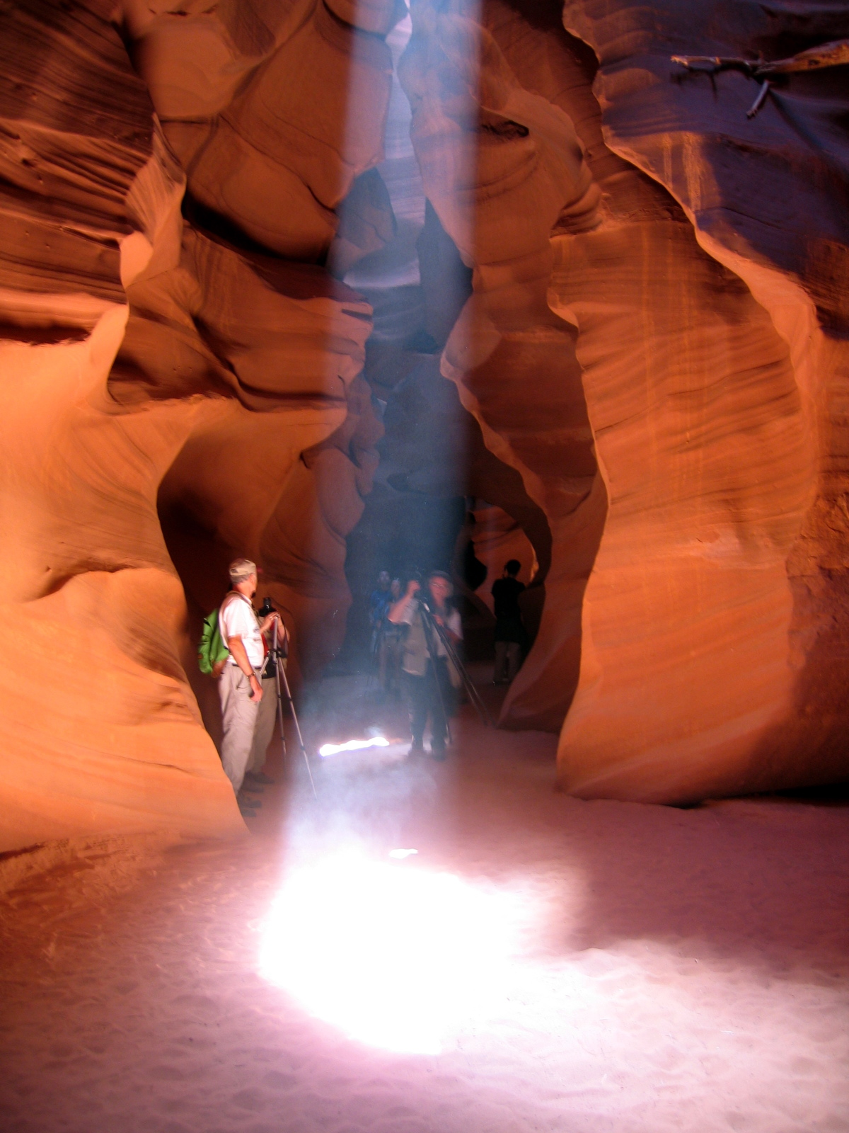 Antelope Canyon